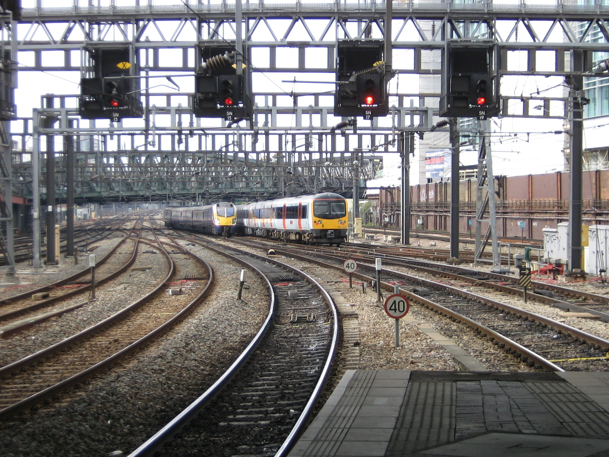 An Adelante Class 180 approaching Paddington on a local service.